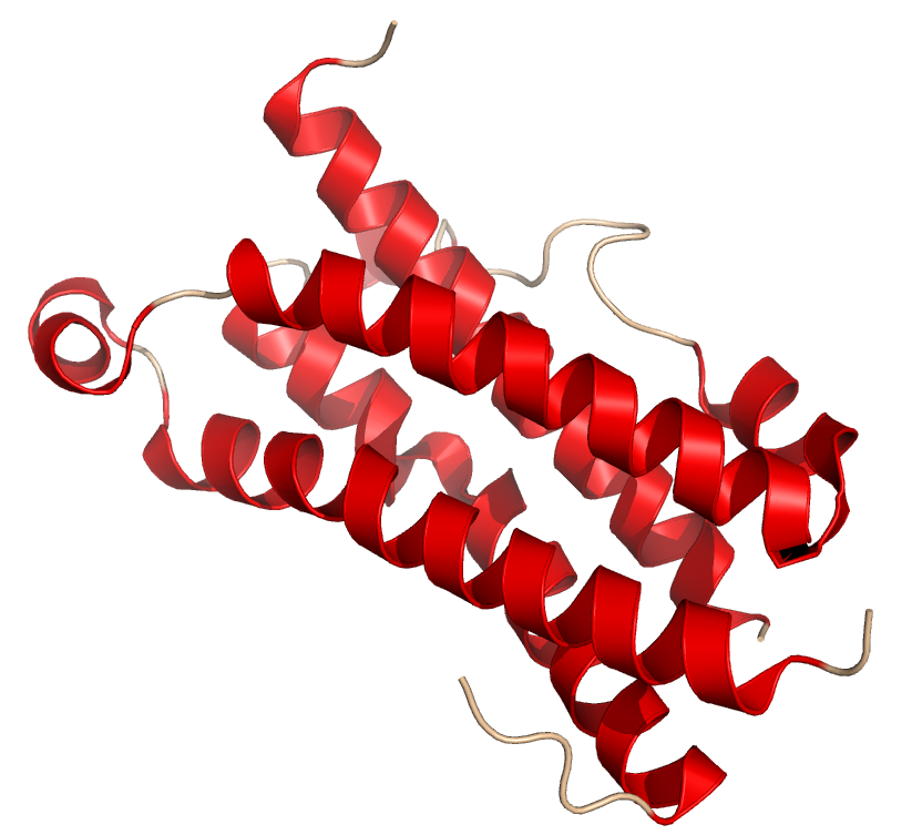 Crystal structure of oncostatin M as published in the Protein Data Bank (PDB: 1EVS)